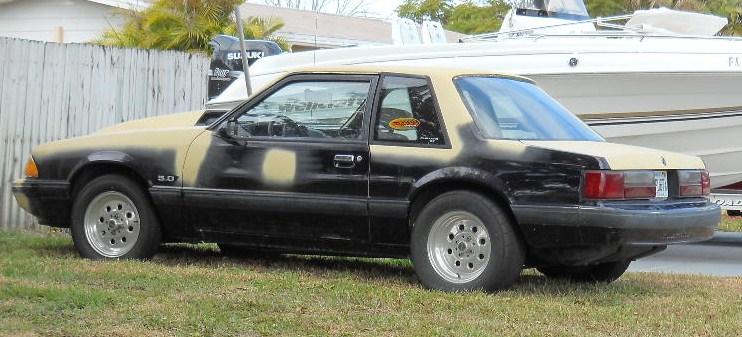 Ex Florida Highway Patrol Ford Mustang SSP (Special Service Package }